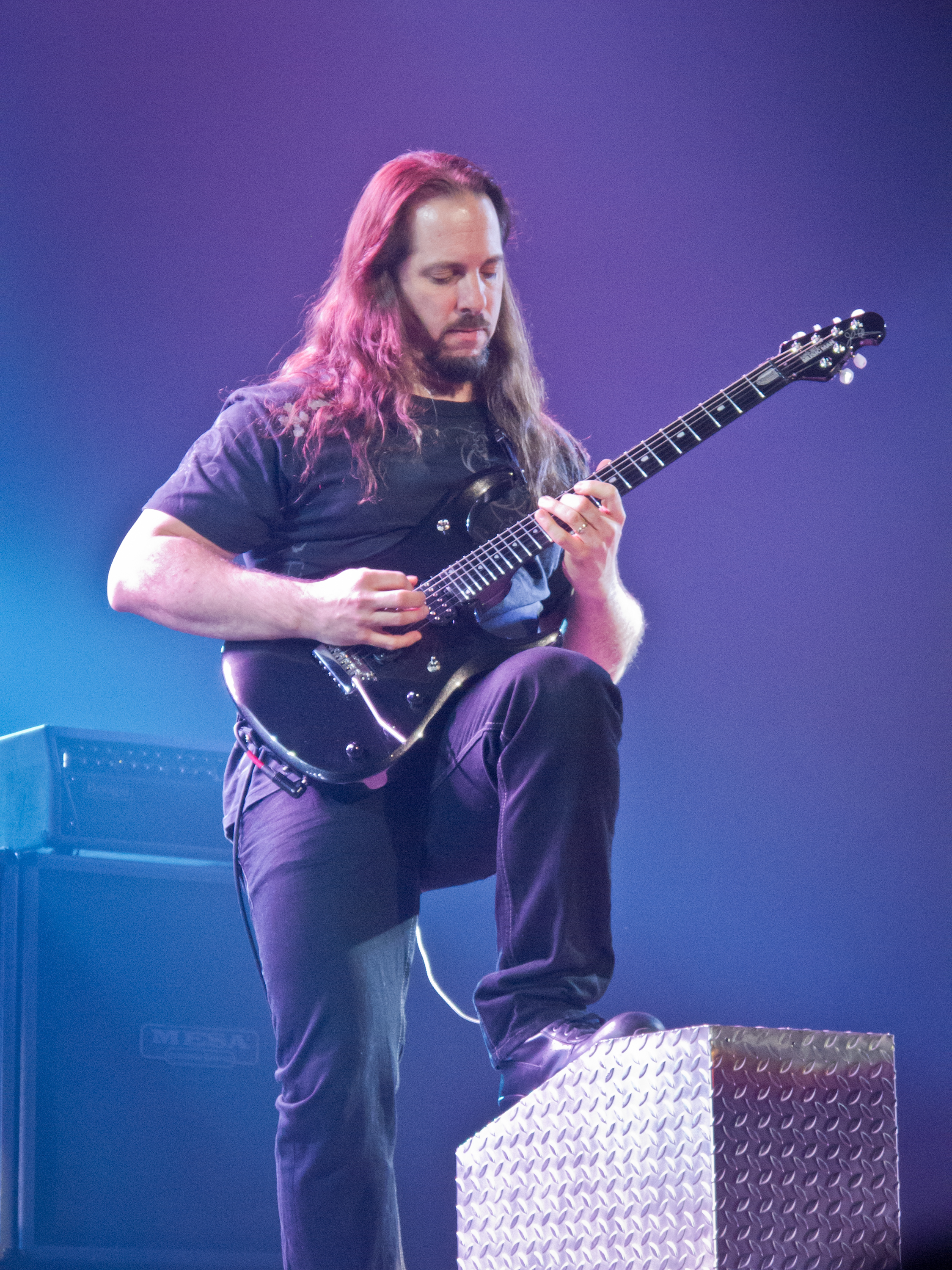 John Petrucci in concert with Dream Theater in 2012.